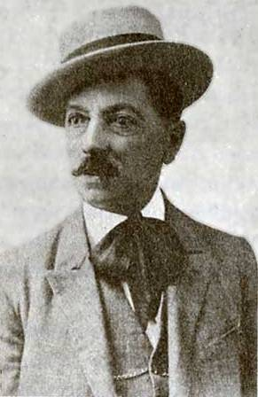 Augusto Novelli (17 January 1867, Florence - 7 November 1927, Carmignano), also known as Novellino, was an Italian Florentine satirical journalist, writer, and dramatist.